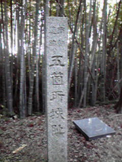 This is the site of Gokasho castle in Minamiise, Mie, Japan.